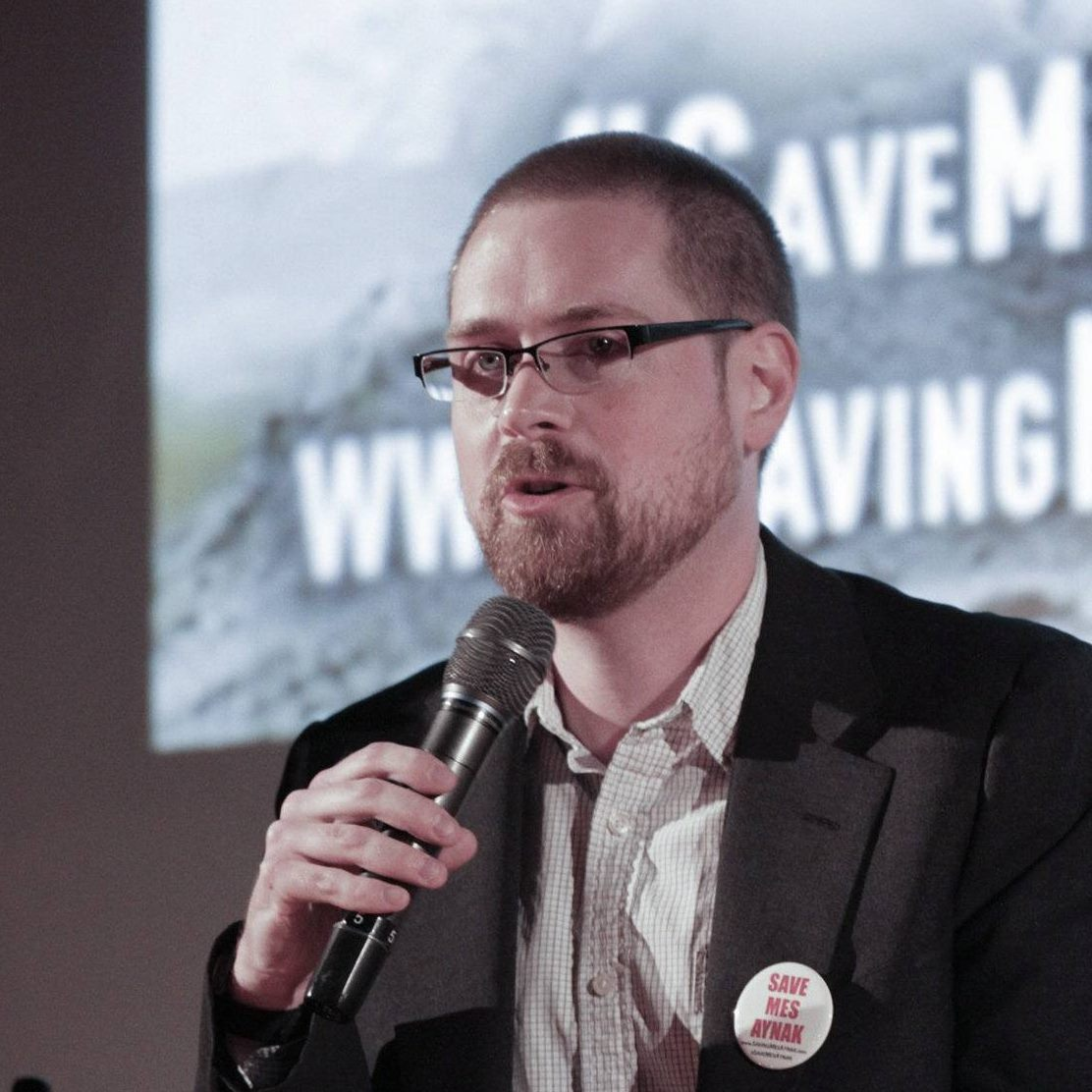 Brent E. Huffman, documentary filmmaker at the Chicago premiere of Saving Mes Aynak, a documentary film, at the Music Box Theatre in Chicago, IL